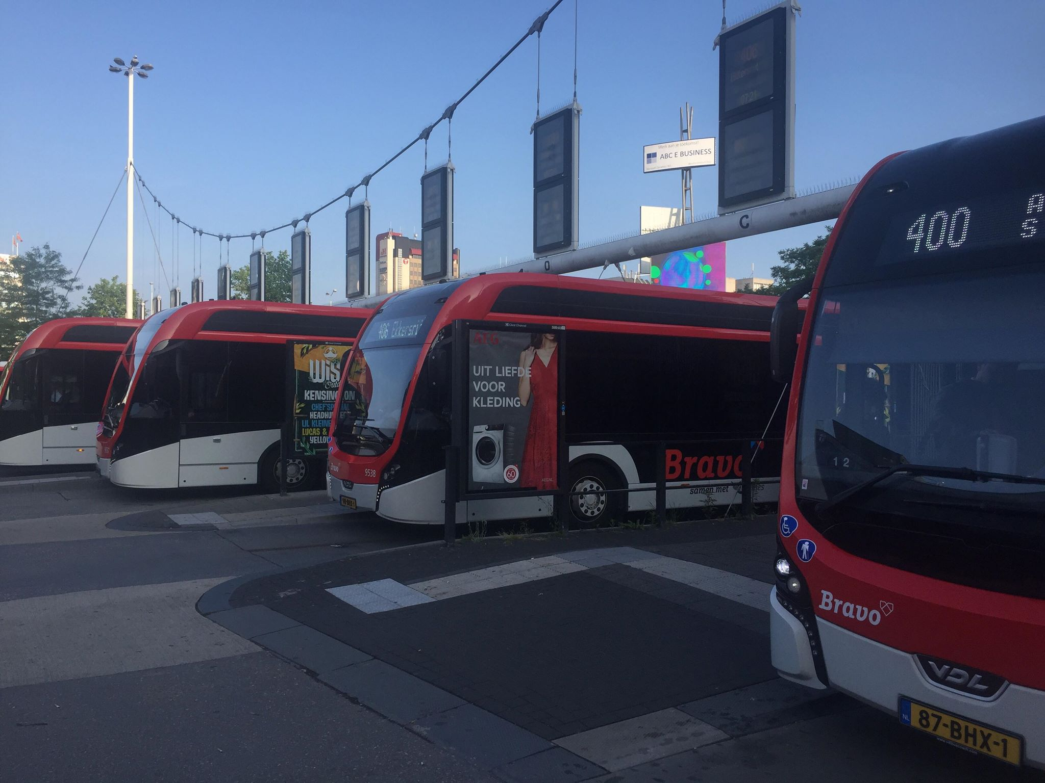 Bus Station Eindhoven